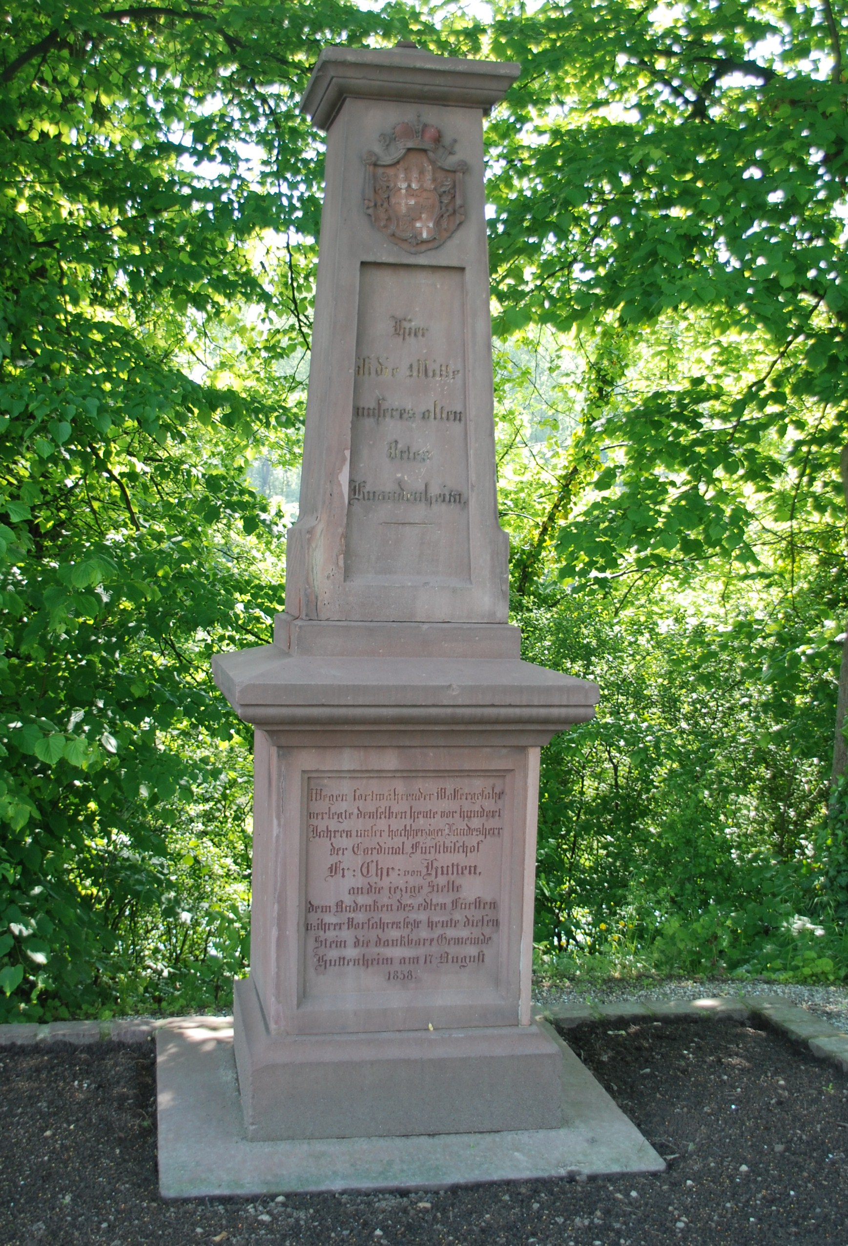 Knaudenheim Memorial